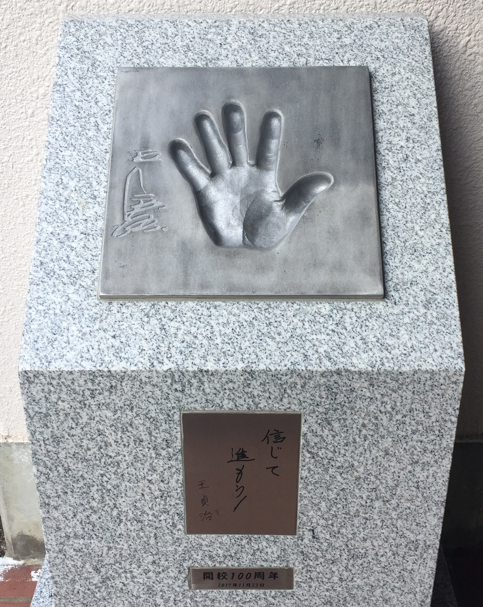 A monument of the sign and handprint of Ō Sadaharu (Sadaharu Oh ; born May 20, 1940), the legendary great baseball player and manager in Japan. Narihira Primary School, Tokyo.